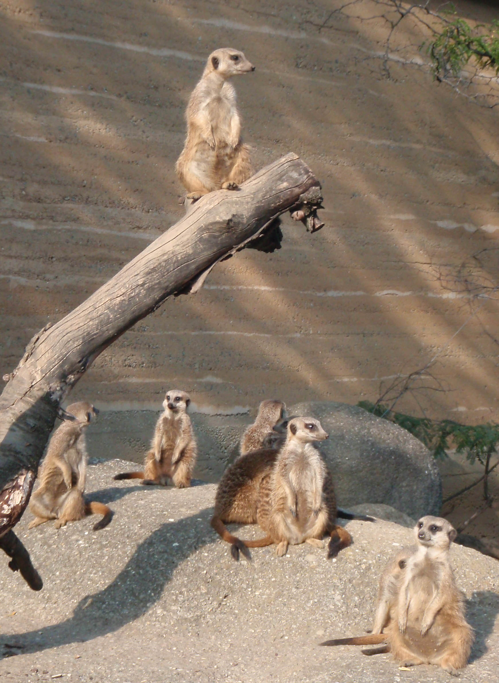 Timons in front of the Etosha House in Zoo Basel